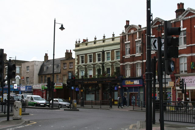 The 'Dolphin', Mare Street, Hackney Situated at the busy junction of Mare Street and Well Street, the Dolphin is well placed, but it's a pity they painted it in such a gloomy colour.